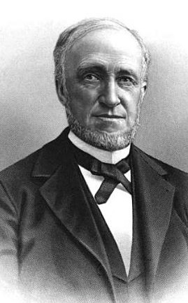 George W. Cowles, New York Congressman